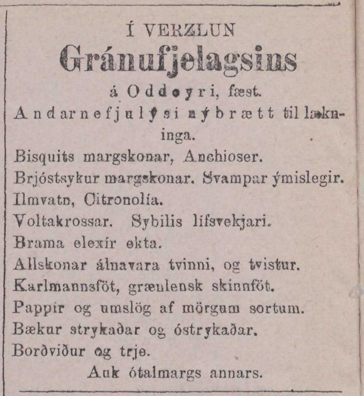 Advertisement from Gránufélagið, Oddeyri, Akureyri, Iceland published in Stefnir 1897 advertising whale oil, Volta crosses, skin cloths etc.